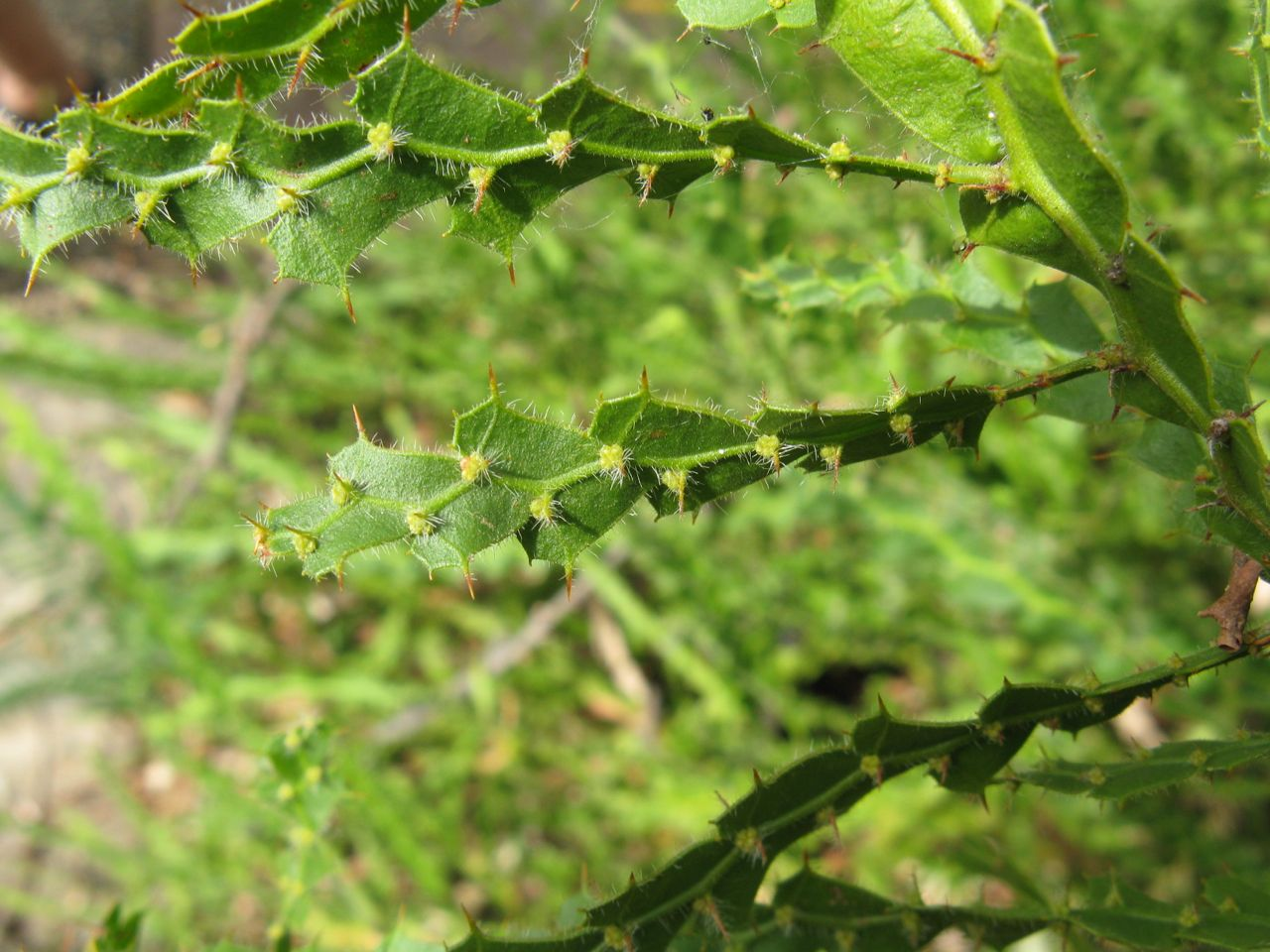 Acacia alata var. biglandulosa, Australian National Botanic Gardens, Canberra